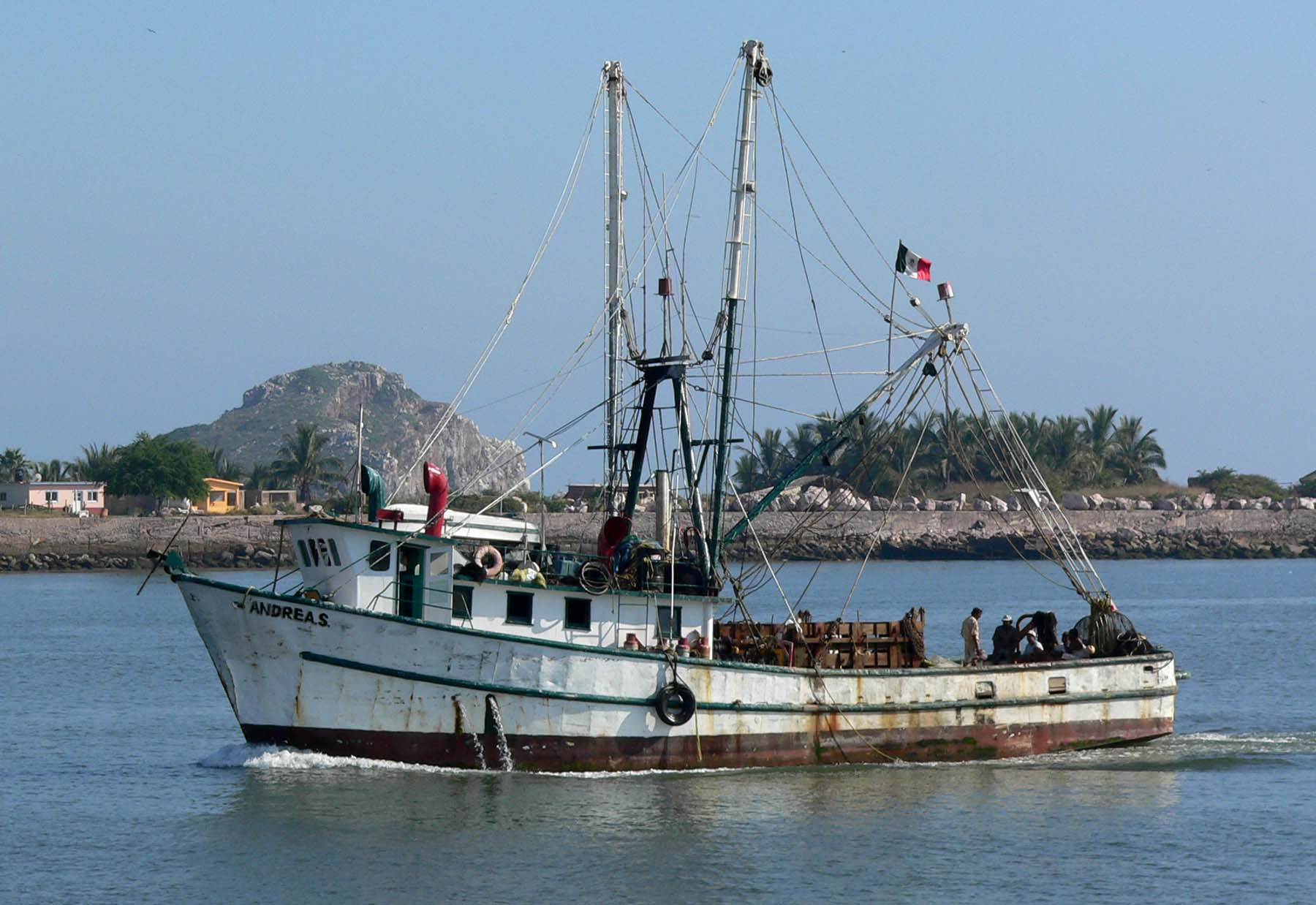 Photo of fishing boat Andrea S. at Mazatlan